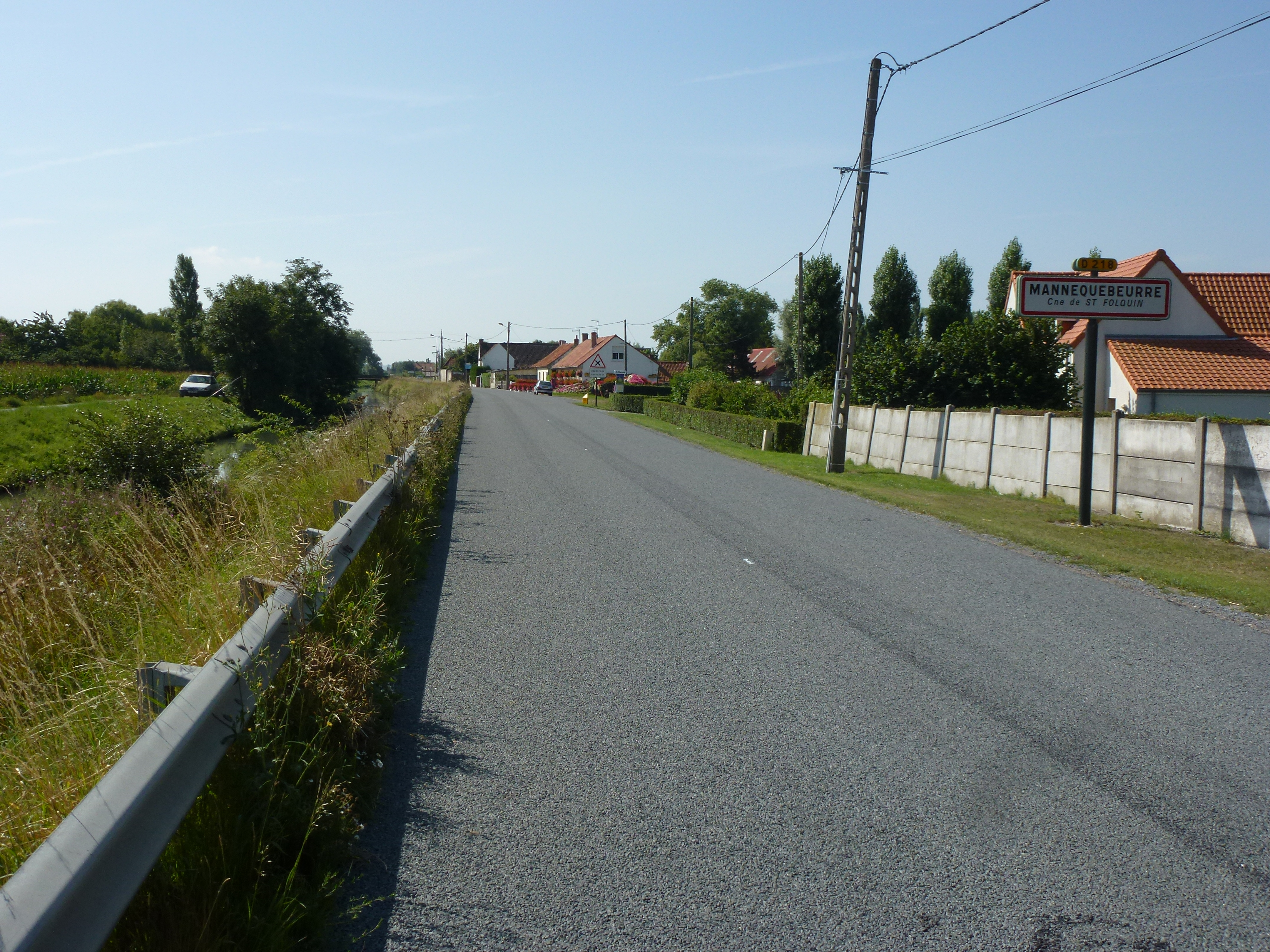 Saint-Folquin (Pas-de-Calais) entrée de Mannequebeurre, au long du Mardick